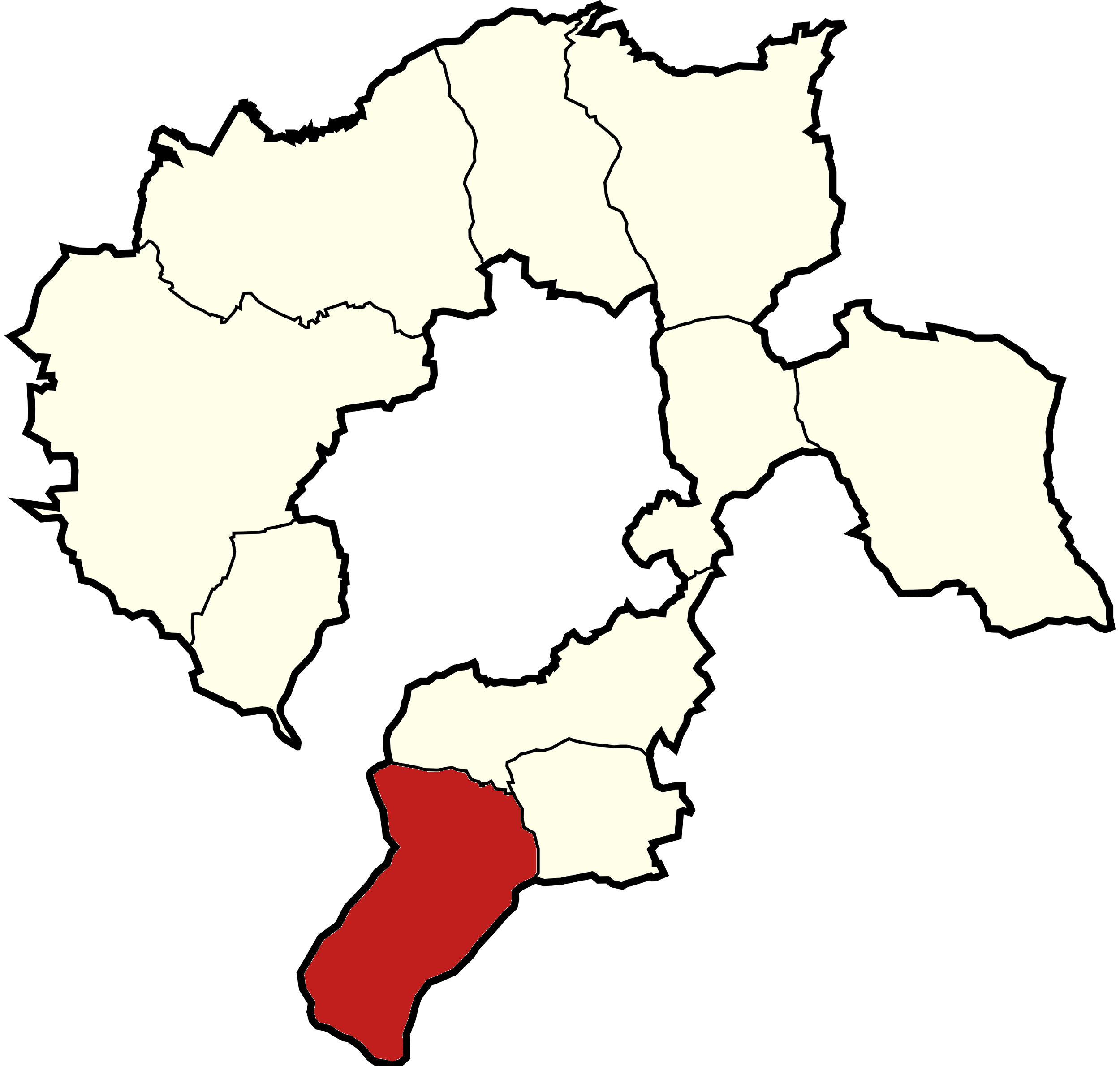 Gmina Szczyrk on Bielsko County map